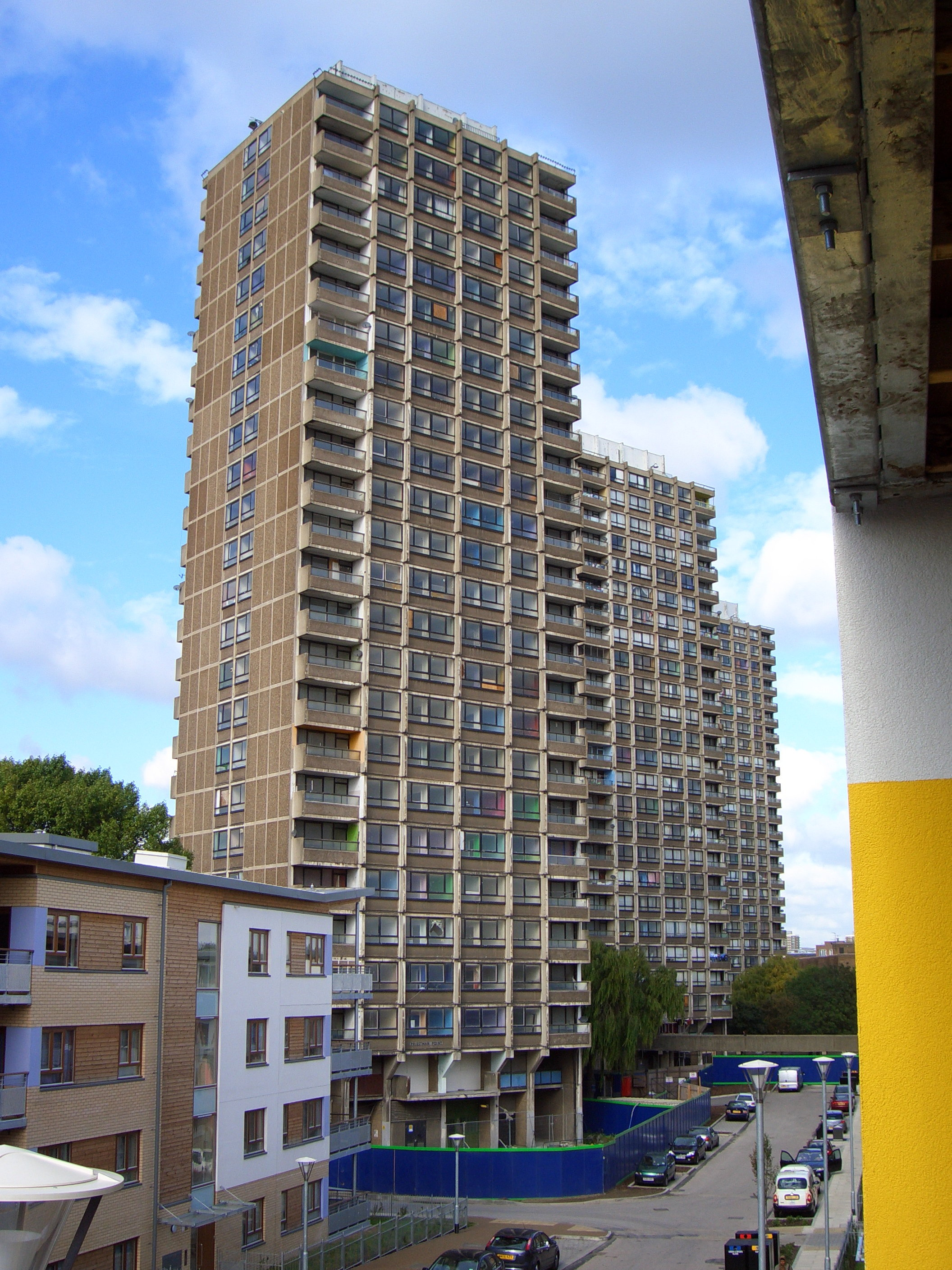 I took this photo myself in 2007.